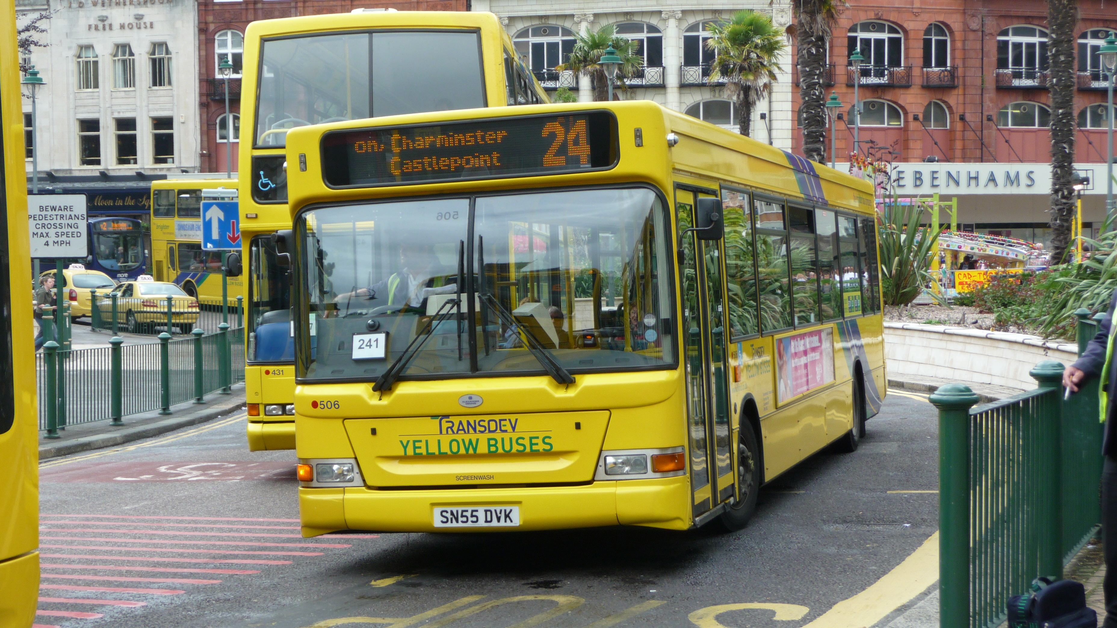 Transdev Yellow Buses 506 (SN55 DVK), a Dennis Dart SLF/Plaxton Pointer 2, in Gervis Place, Bournemouth, Dorset, on route 24. The bus was waiting to pull out behind the parked bus just in shot on the left. However, the driver of the double-decker behind rather foolishly went through the single-file section of traffic calming despite the fact he couldn't clear it, with the result buses going in the other direction couldn't get through. Because of this, 506 was also unable to move, so had to reverse into the space it is seen in here to enable the double-decker to clear the single-file section and avoid complete gridlock.